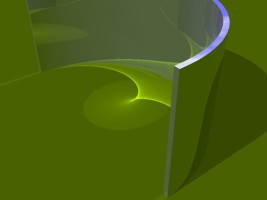 Reflexion of a plane wave by a cylindrical mirror with circular base. Image realised with POVRay